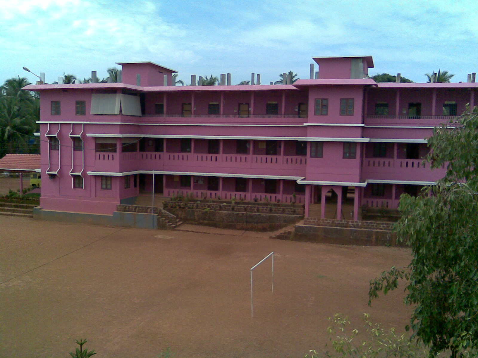 Its the logo of Markazul uloom English school, Kondotty, Kerala, India